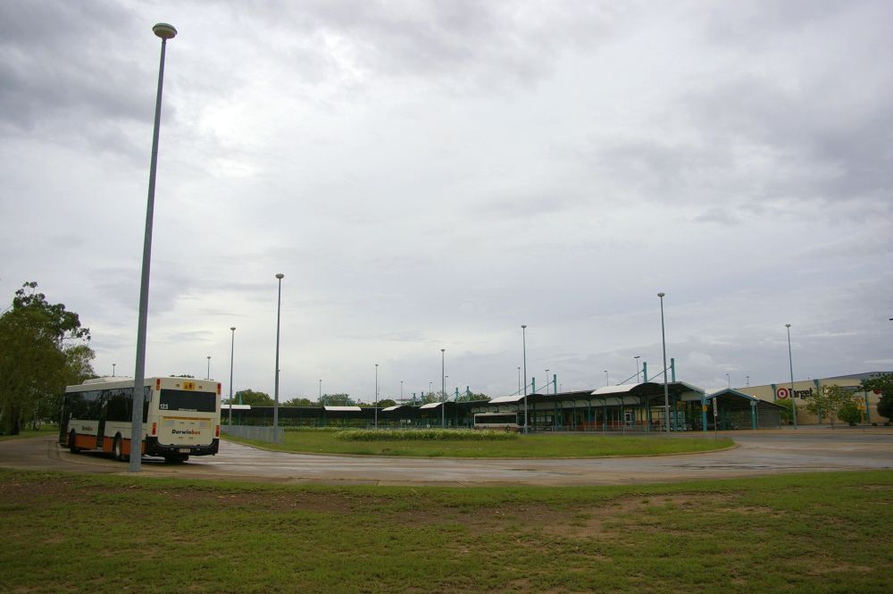 Palmerston Bus Interchange with a Darwinbus Volgren "CR228L" bodied Mercedes Benz O 500 LE (Built 2006, Fleet #: 123 Rego #: mo 8.123).